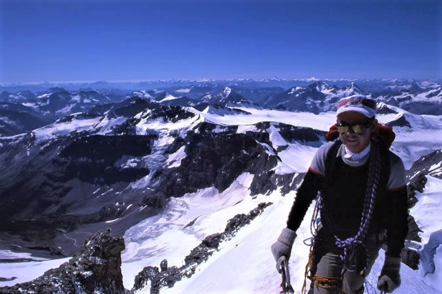 Mountaineering in Canada; Mt. Forbes' summit; the highest peak within the confines of Banff Nat'l Park and the 7th highest in the Canadian Rocky Mountains. Doug on rope.